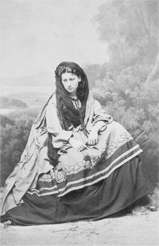 Charlotte Wolter, austrian actress